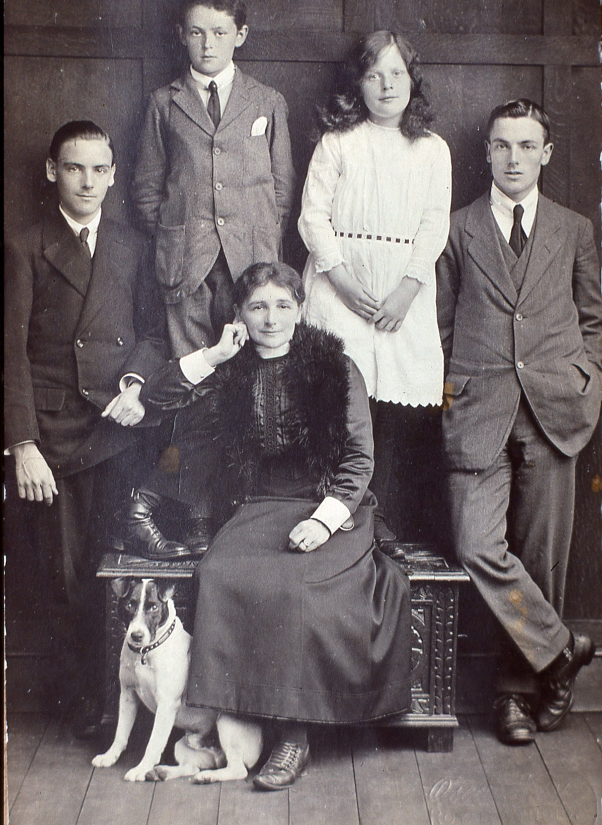 Bertha Mason (seated) surrounded by members of her family